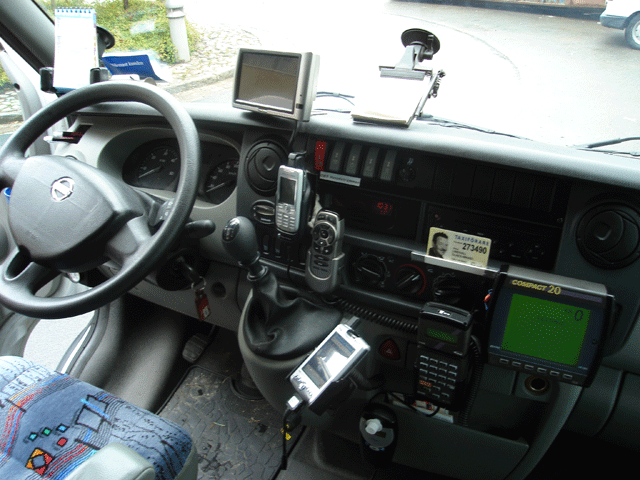 NIssan Interstar